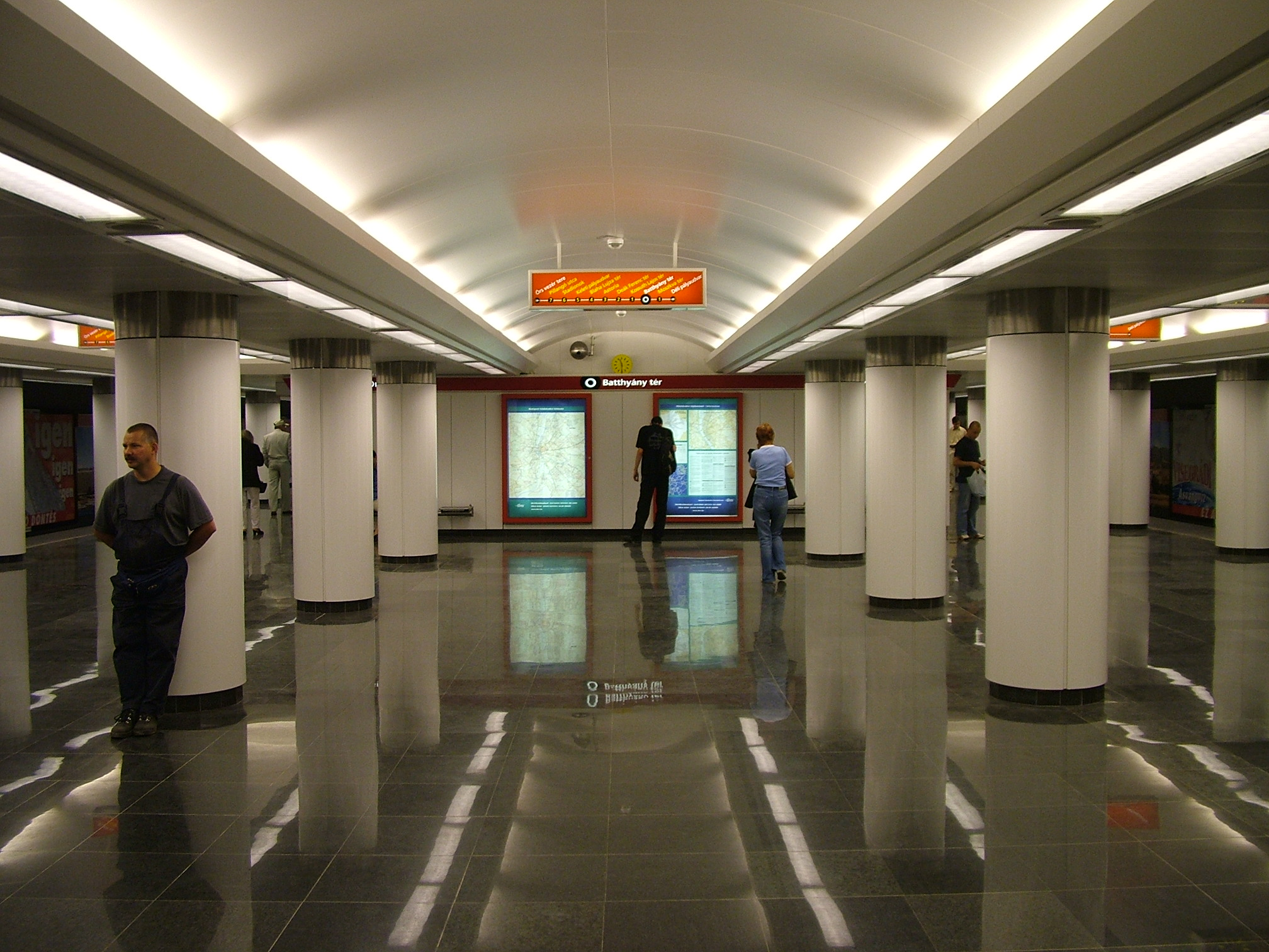 Batthány square on the Budapest metro line 2 See other pictures: metros.hu